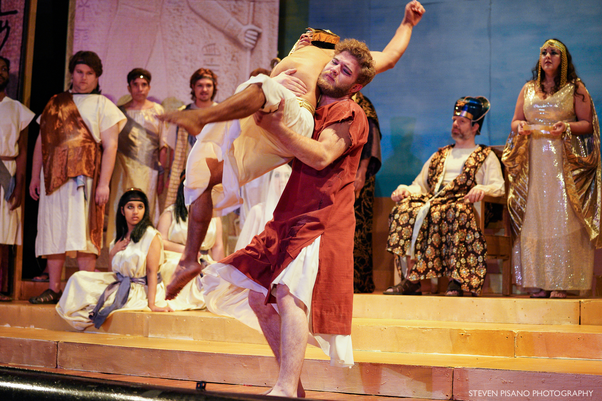 Photos by Steven Pisano.